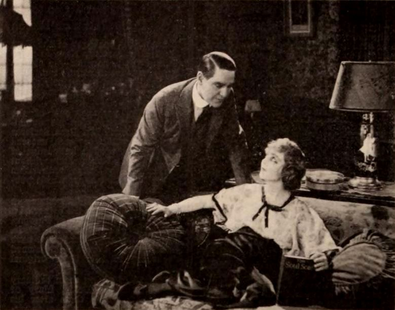 Still from the American drama film serial The Mystery Mind (1920) with J. Robert Pauline and Violet MacMillan, on page 80 of the April 24, 1920 Exhibitors Herald.